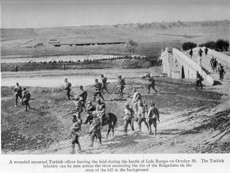 Ottoman sufferings during the Battle of Lule-Burgas. (The First Balkan War)